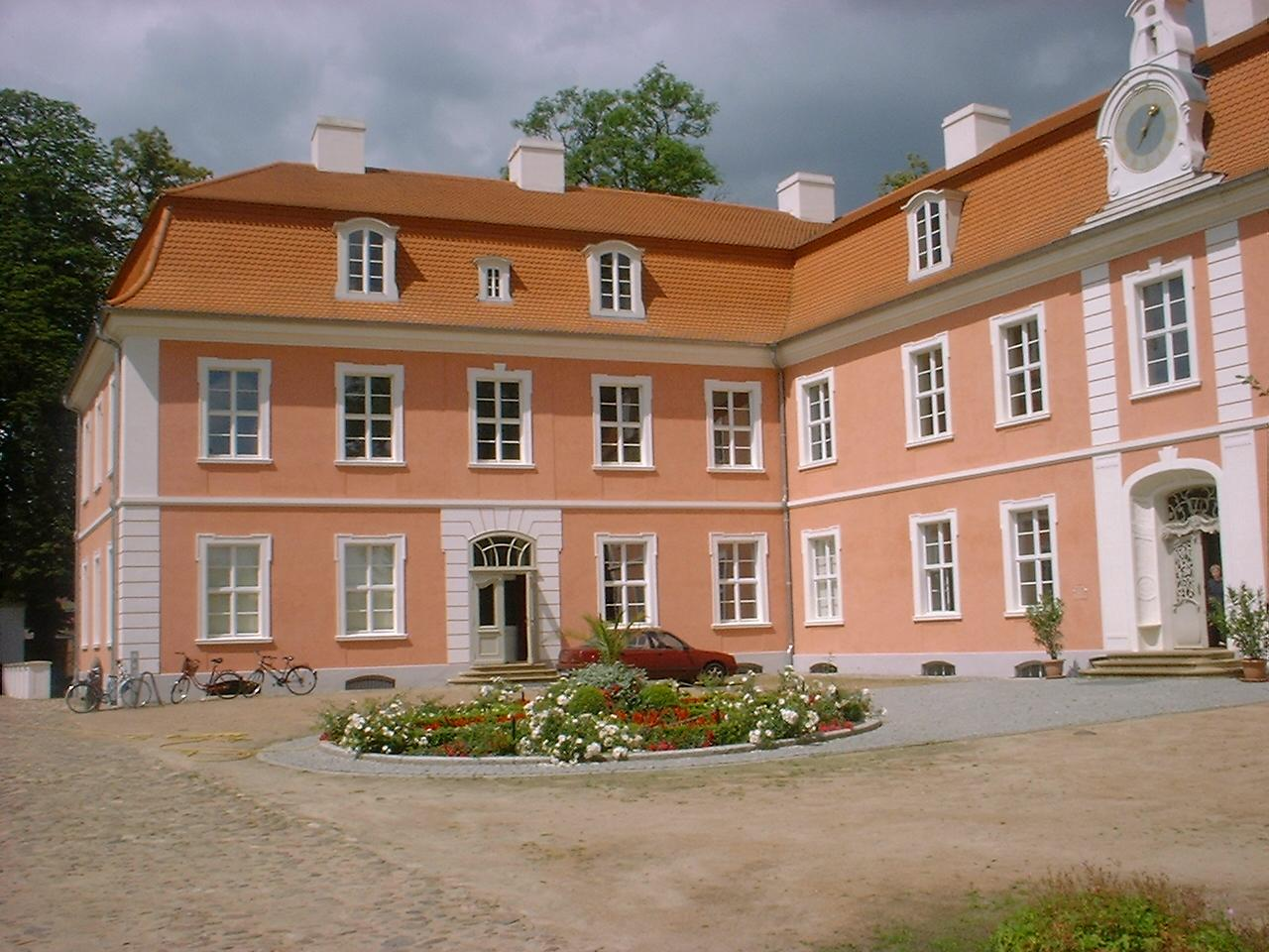 Palace in Wolfshagen (municipality Groß Pankow) in Brandenburg, Germany